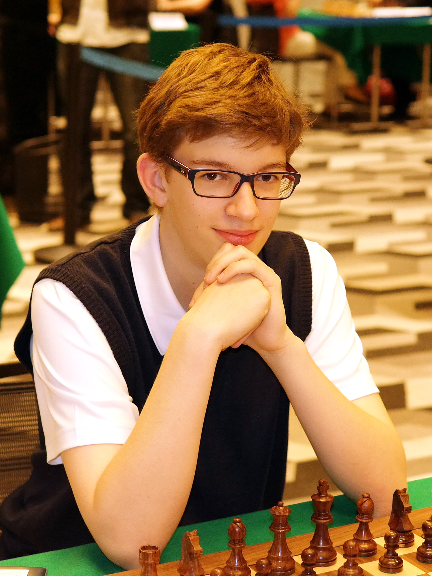 GM Jan-Krzysztof Duda, Polish Chess Championship, Warsaw 2014